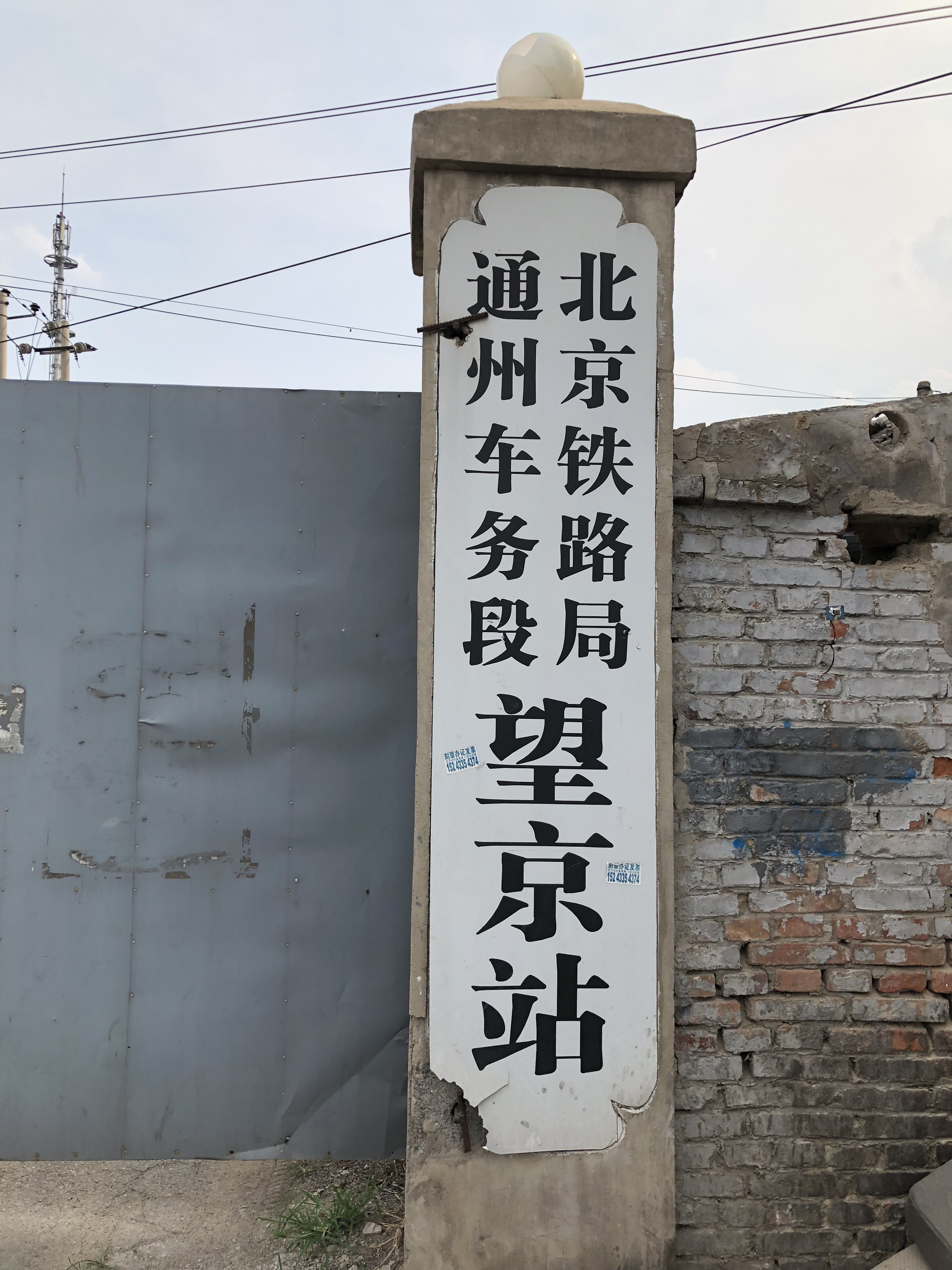 Wangjing Railway Station Entrance